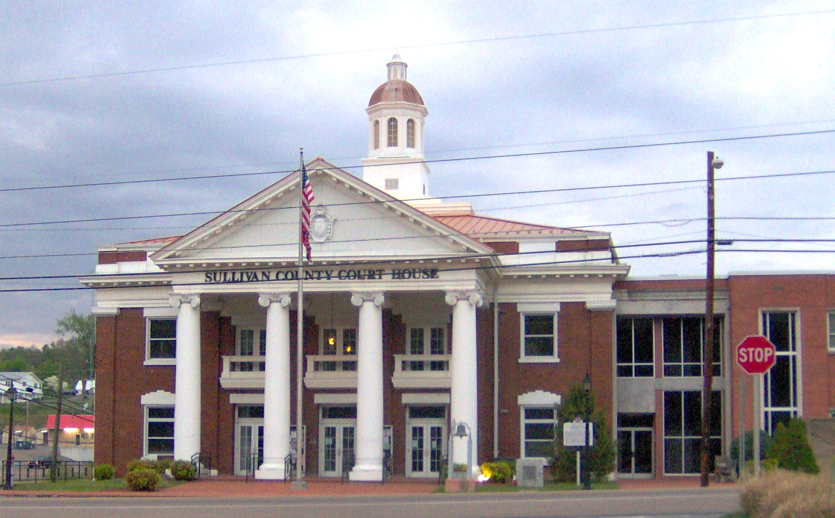 Sullivan County Courthouse in Blountville, Tennessee, in the southeastern United States.